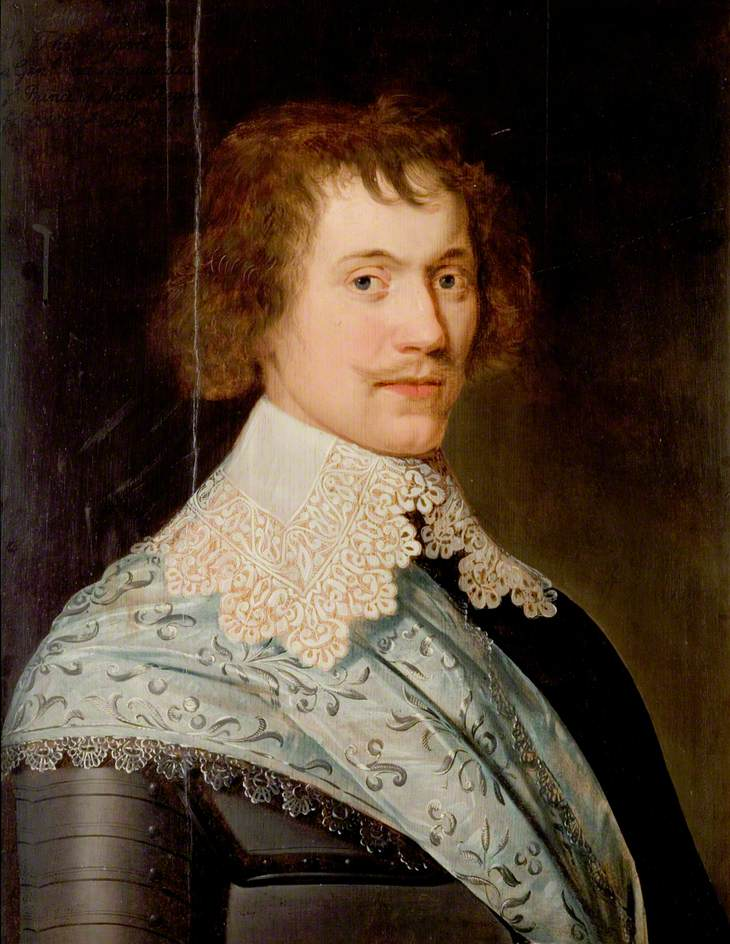 Portrait of Sir Thomas Byron (d.1643) by Joachim Houckgeest, oil on wood panel, 69 x 54 cm, Newstead Abbey, Ravenshead, Nottinghamshire, #NA 930